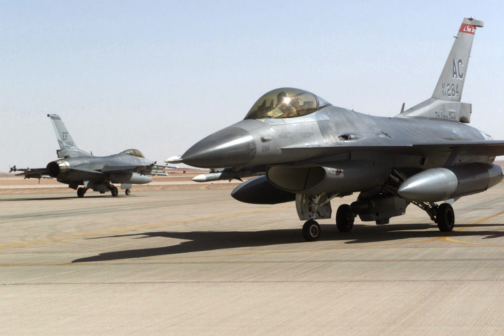 ID: DFSD0106832 Service Depicted: Air Force 001021F0929W022 Operation / Series: SOUTHERN WATCH US Air Force F-16 Falcons from the New Jersey Air National Guard prepare to have their weapons armed at Prince Sultan Air Base, Saudi Arabia, during Operation SOUTHERN WATCH. The F-16s are a part of the coalition forces of the 363d Air Expeditionary Wing, Prince Sultan AB, KSA, that enforces the no-fly and no-drive zone in Southern Iraq to protect and defend against Iraqi aggression.